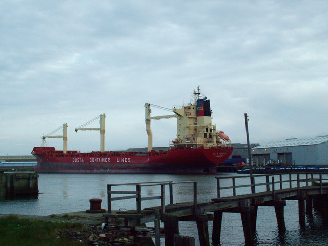 Battleship Wharf Container ship Cala Ponente of Costa Container Lines